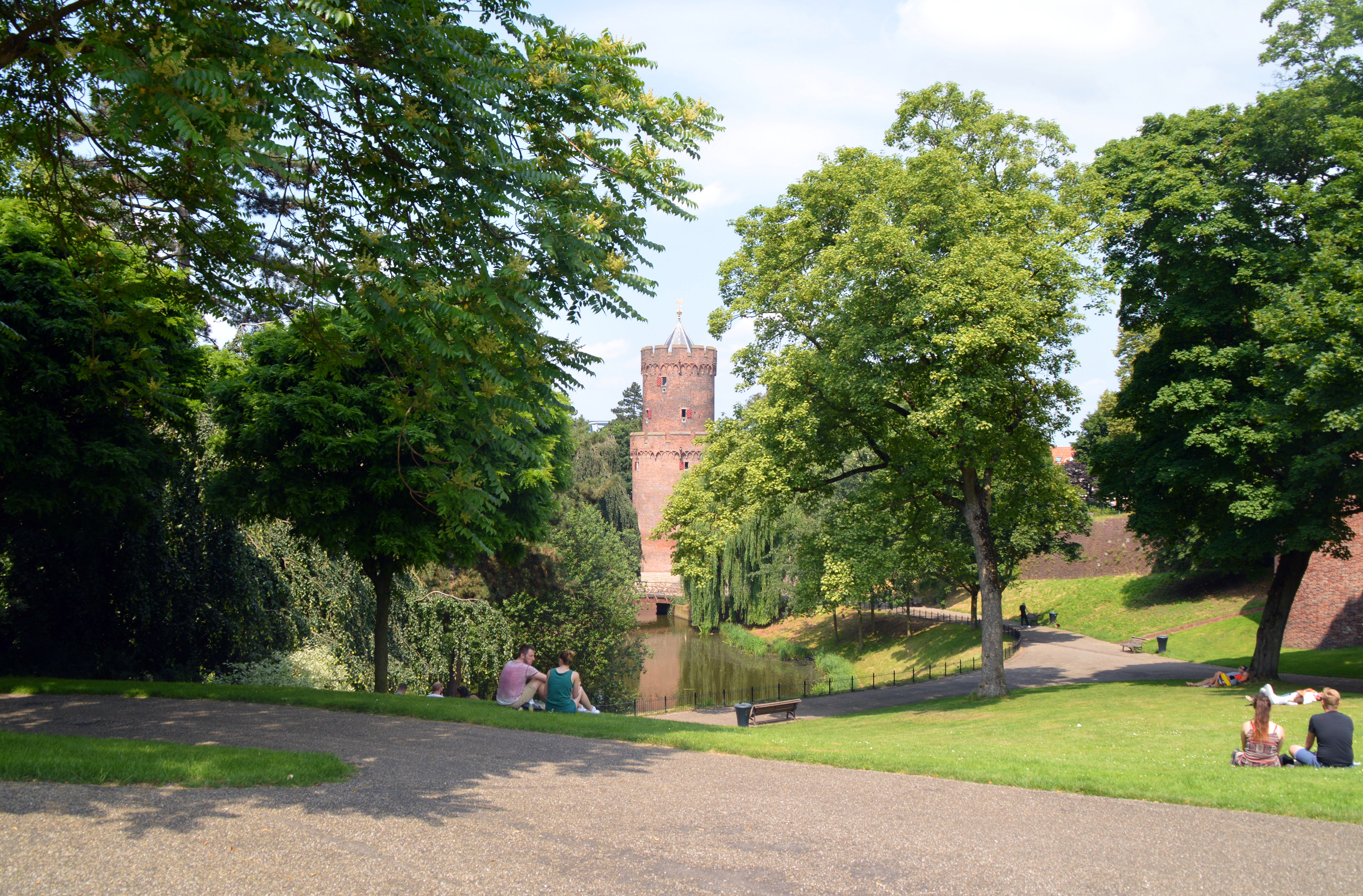 Nijmegen City center Kronenburger park summer with Kruittoren defense bank and pond.